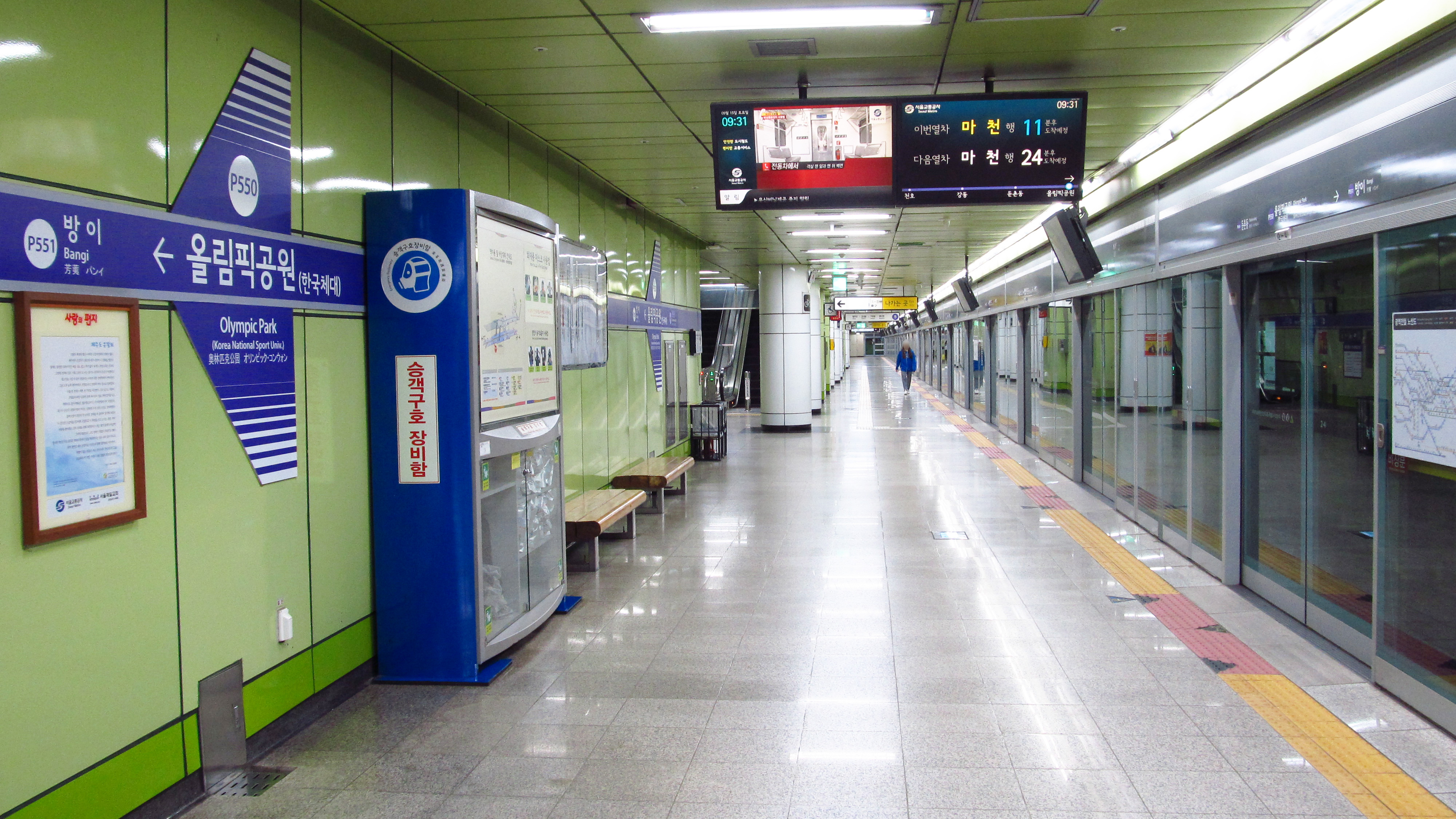 The platform at Olympic Park Station on Seoul Subway Line 5 in Songpa-gu, Seoul, Republic of Korea(South Korea)